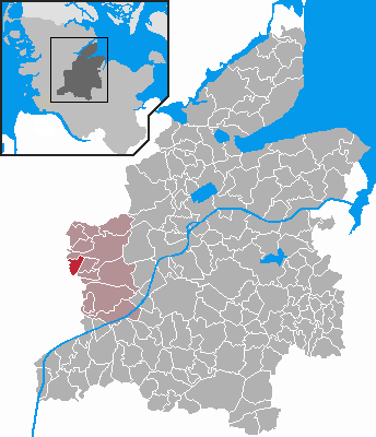 Locator maps of municipalities in Schleswig-Holstein - District Rendsburg-Eckernförde